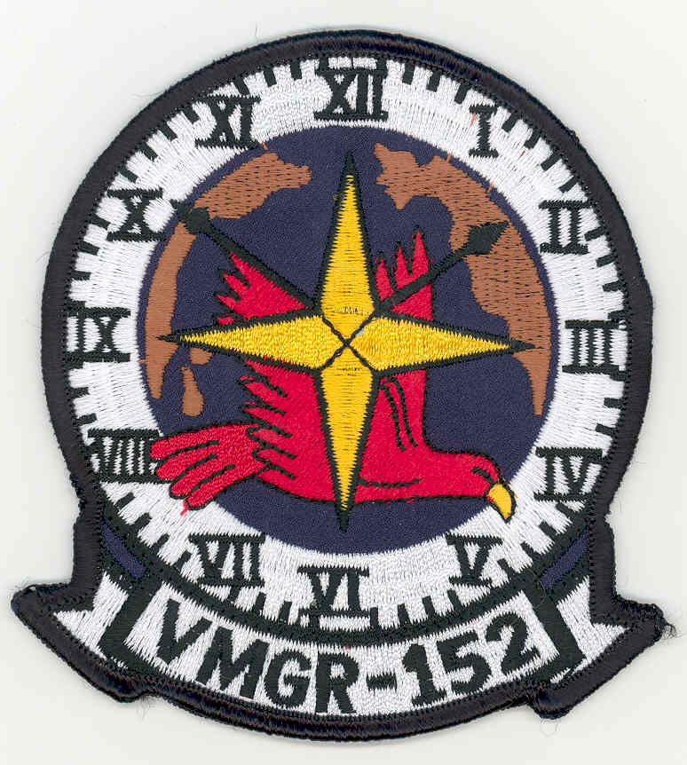 Scan of a VMGR-152 patch